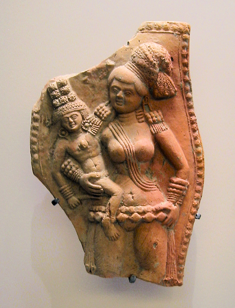 Sunga woman with child. Chandraketugarh. Sunga 2nd-1st century BCE. Musée Guimet. Personal photograph.